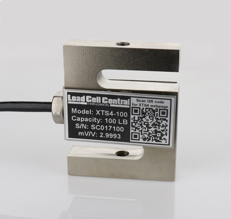 WL-STLC load cell